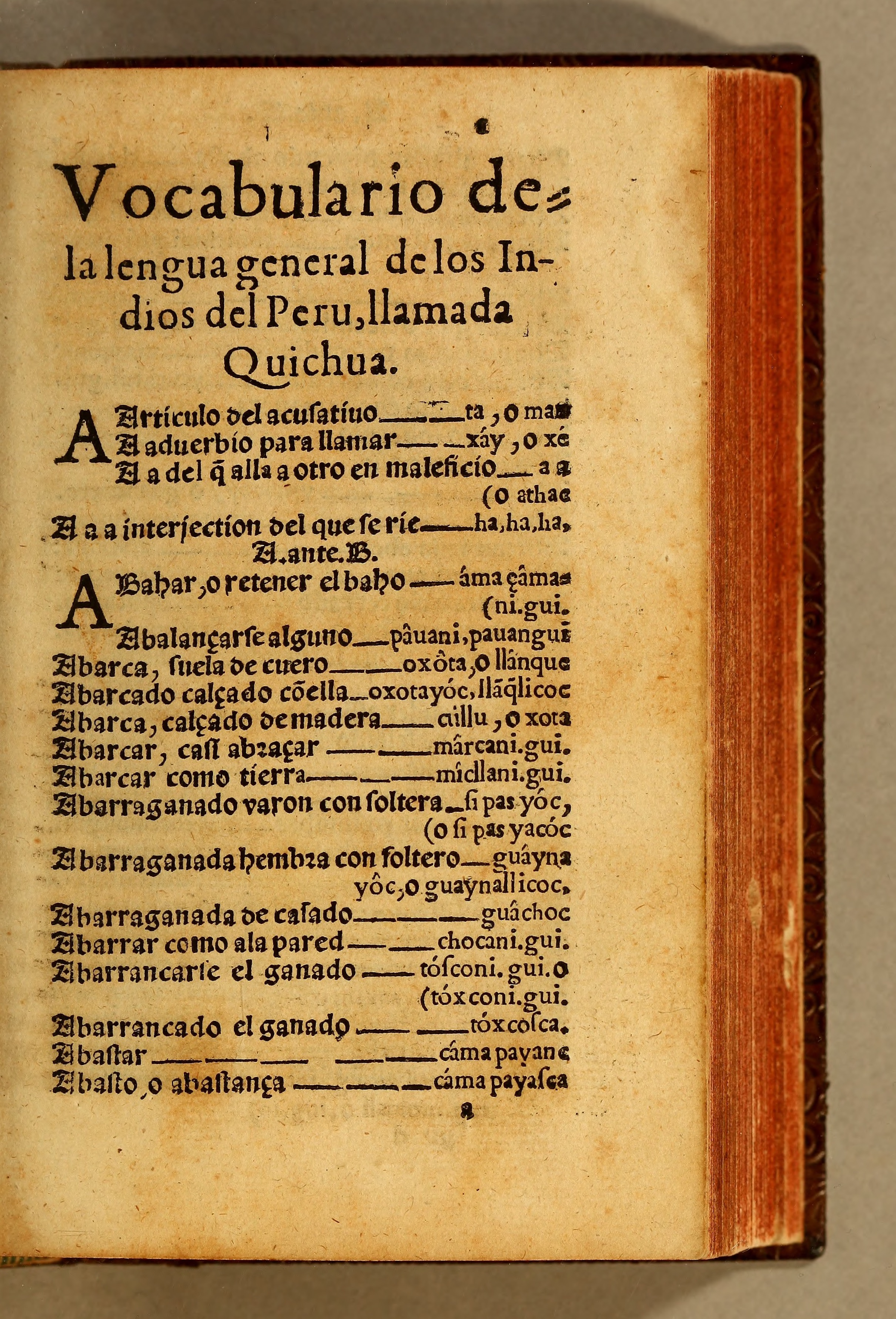 First page of the vocabulary list from Domingo de Santo Tomás' Lexicon, o Vocabulario de la lengua general del Peru (Valladolid 1560)